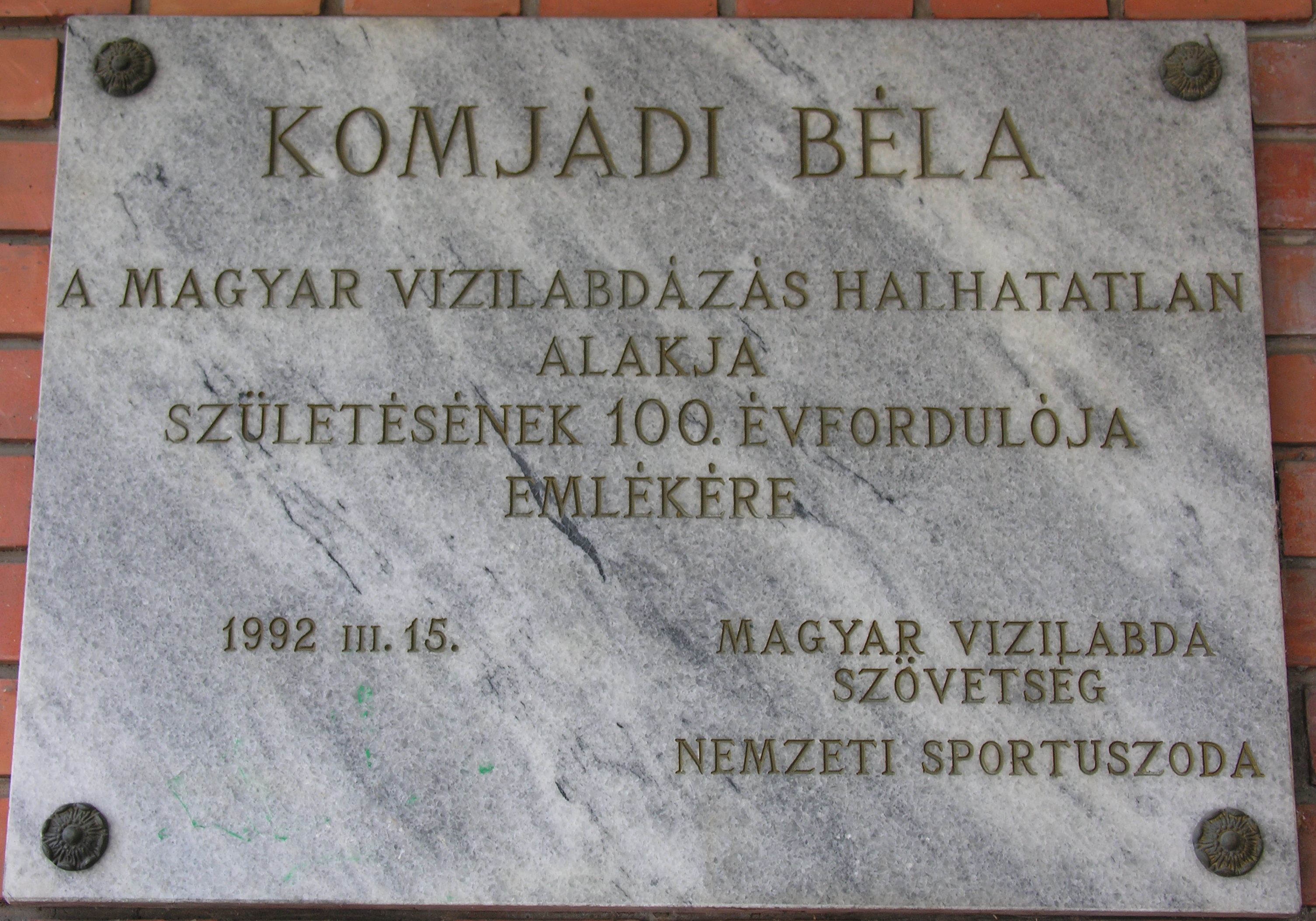 Commemorative plaque of Béla Komjádi in Budapest District II, Street of Árpád fejedelem No 8 (swimming pool)